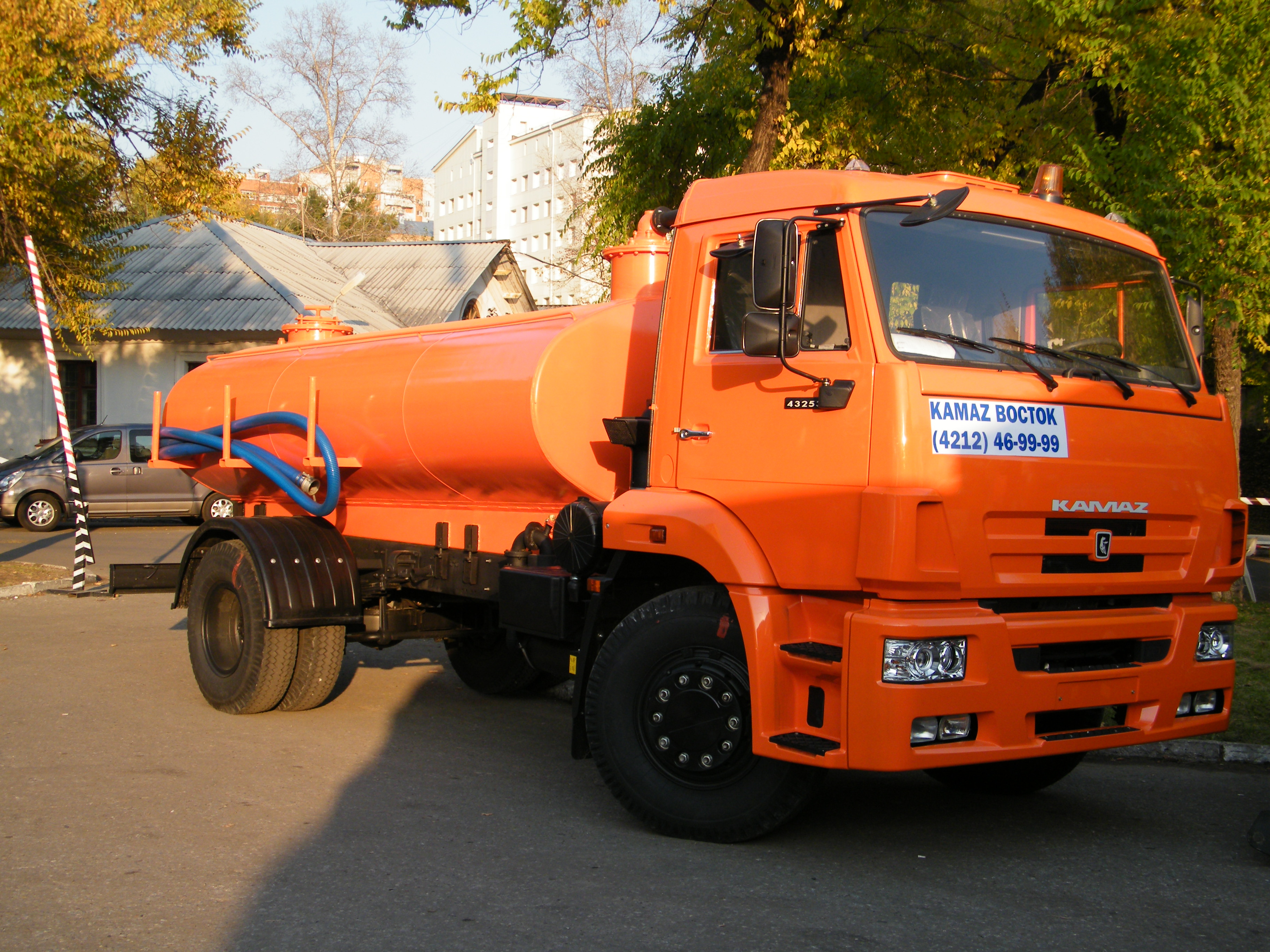 КАМАЗ 43253